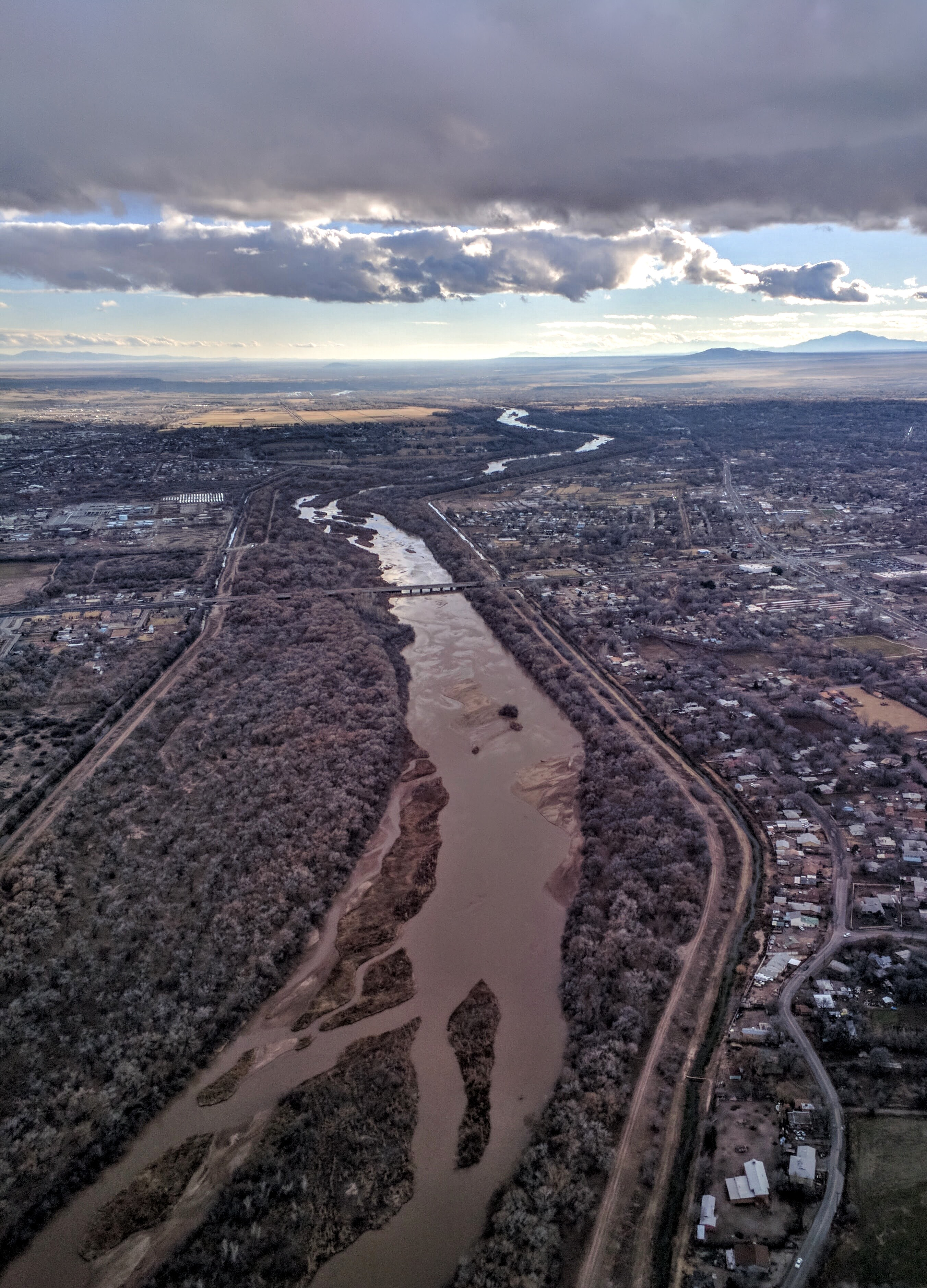 Aerial view of the Rio Grande, looking south from just west of Albuquerque International Airport, December 2016.